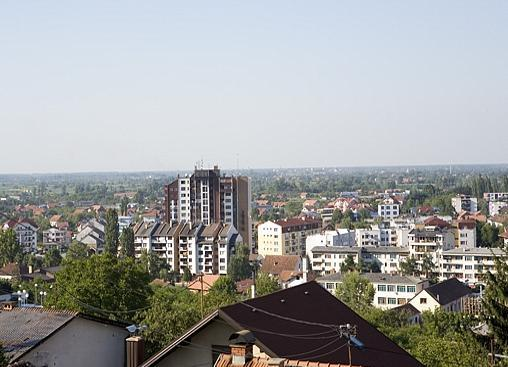 Modriča in Bosnia and Herzegovina.